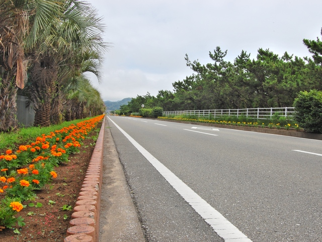 The road from Tateyama to Chikura (Japan) called the "Flower line", near the roadside station "Nanbo paradise". location: Tateyama caption: Boso flower line